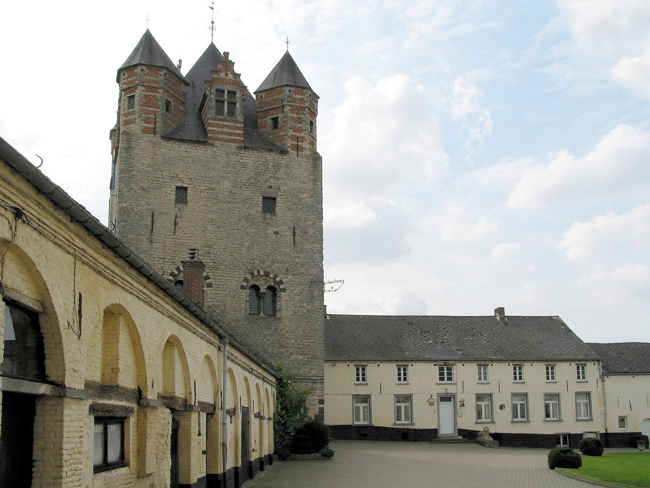 Céroux-Mousty (Belgium), the Moriensart Castle farm (XVIII-XIXth century) and her keep (first part of the XIIIth century).